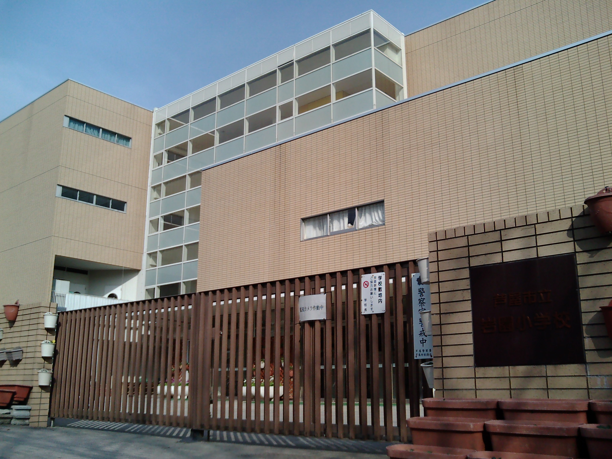 Ashiya Iwazono Elementary School